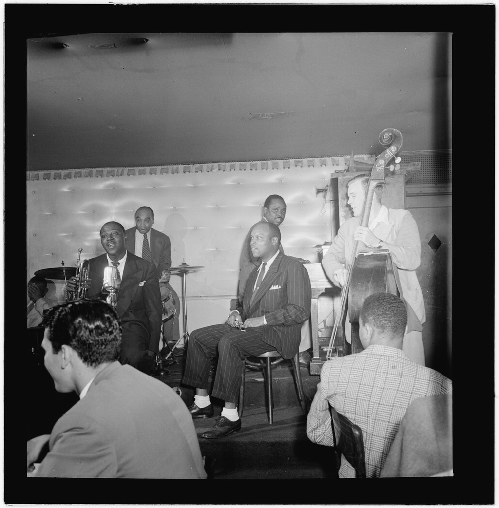 Gottlieb, William P., 1917-, photographer. [Portrait of Sidney De Paris, Freddie Moore, Eddie (Emmanuel) Barefield, Sammy Price, and Charlie Traeger, Jimmy Ryan's (Club), New York, N.Y., ca. July 1947] 1 negative : b&w ; 2 1/4 x 2 1/4 in. Notes: Gottlieb Collection Assignment No. 107 Purchase William P. Gottlieb Forms part of: William P. Gottlieb Collection (Library of Congress). Subjects: De Paris, Sidney Moore, Freddie Barefield, Eddie (Emmanuel) Price, Sammy Traeger, Charlie Jazz musicians--1940-1950. Fifty-second Street (New York, N.Y.)--1940-1950. Jimmy Ryan's (Club) Format: Portrait photographs--1940-1950. Group portraits--1940-1950. Film negatives--1940-1950. Rights Info: Mr. Gottlieb has dedicated these works to the public domain, but rights of privacy and publicity may apply. Repository: (negative) Library of Congress, Prints & Photographs Division, Washington D.C. 20540 USA, Part Of: William P. Gottlieb Collection (DLC) 99-401005 General information about the Gottlieb Collection is available at Persistent URL: Call Number: LC-GLB23- 1478 This work is from the William P. Gottlieb collection at the Library of Congress. Rights and restrictions.In accordance with the wishes of William Gottlieb, the photographs in this collection entered into the public domain on February 16, 2010.